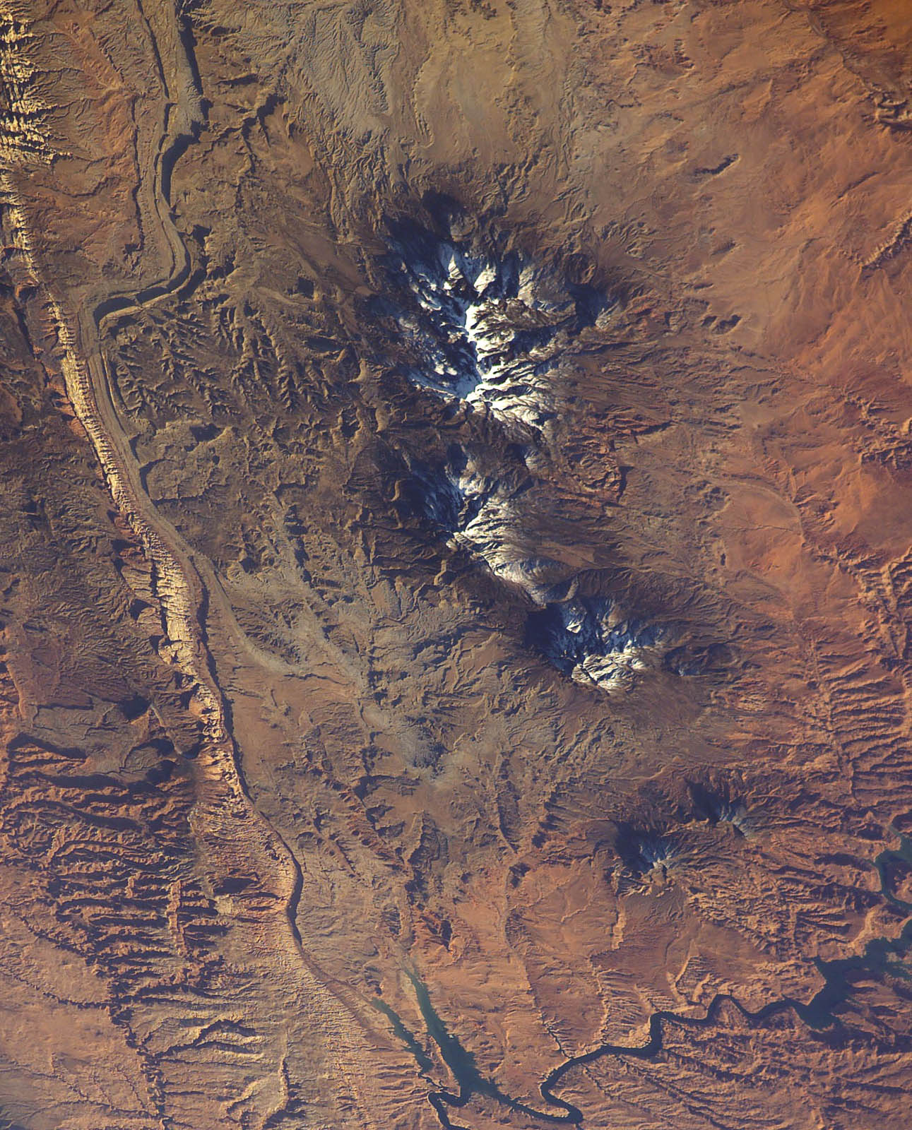 USA-UTAH Features: WATERPOCKET FOLD, HENRY MTS. Center Point Latitude: 37.5 Center Point Longitude: -111.0 (Negative numbers indicate south for latitude and west for longitude)